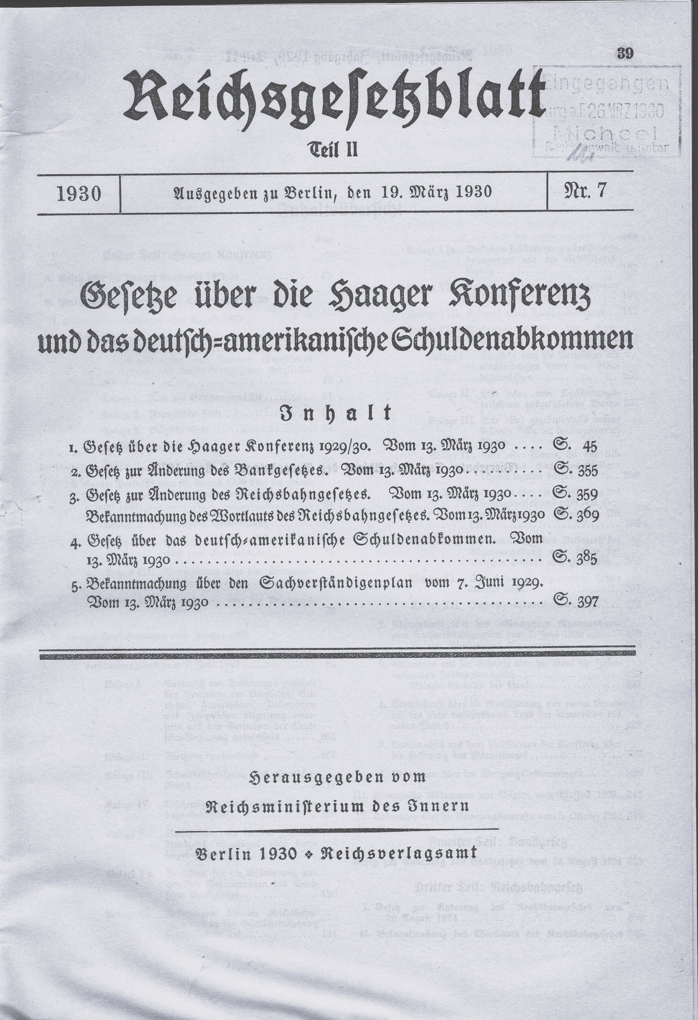 Scan from the Imperial Law Gazette of Germany, 1930, part 2